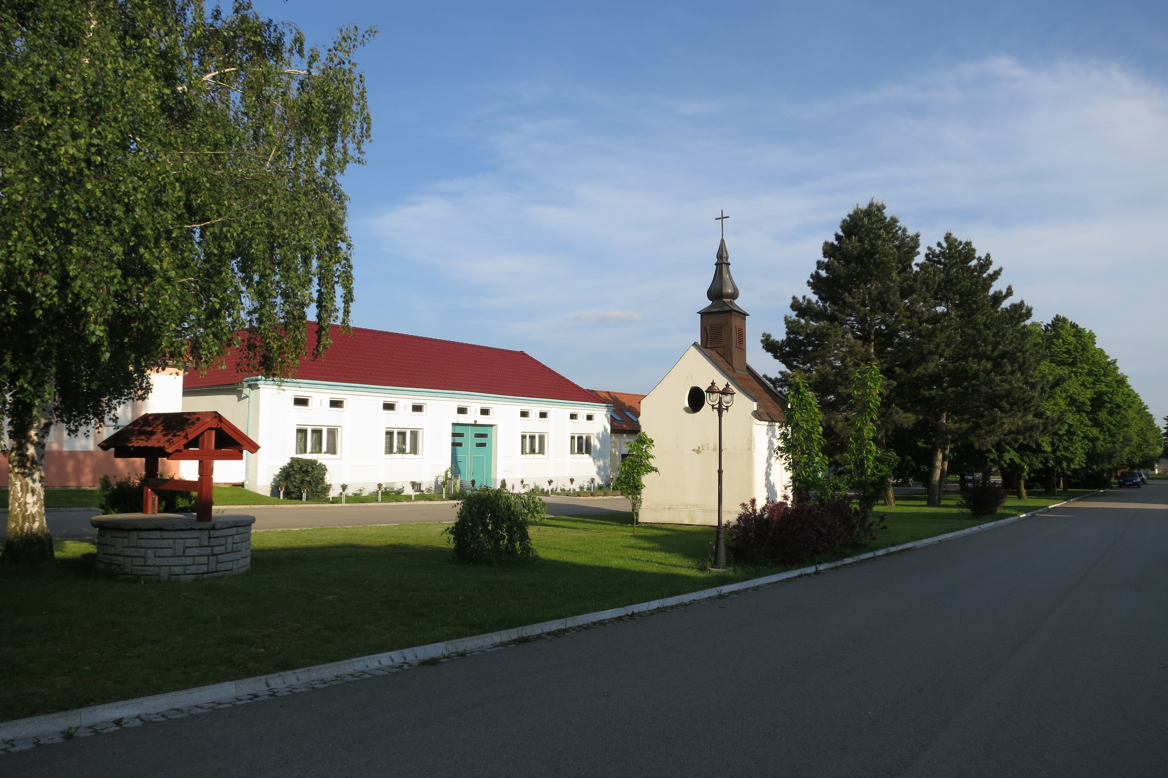 Center of Lovčovice with chapel, Třebíč District.